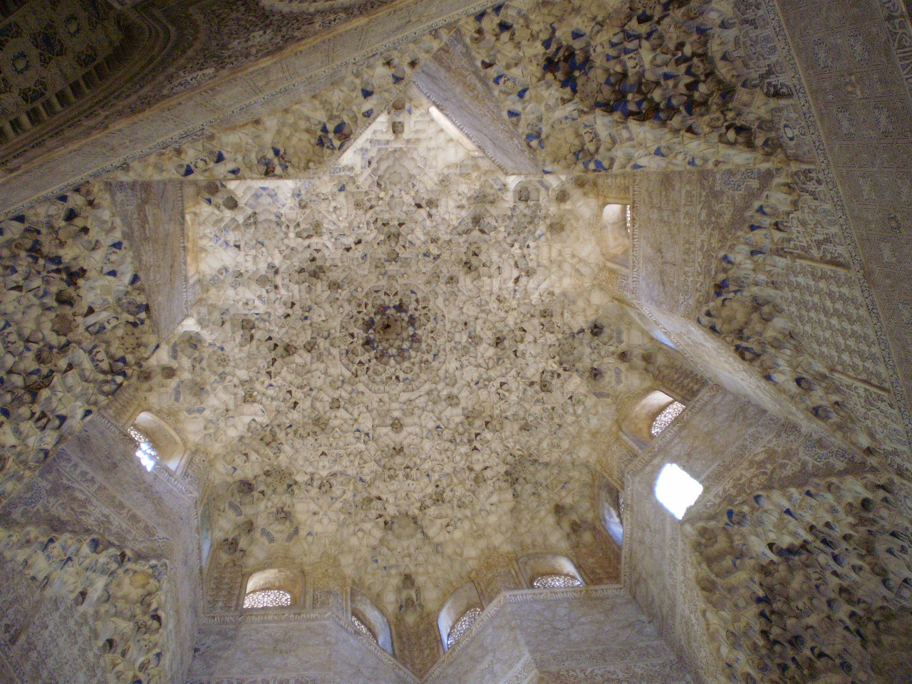 The interior of a dome in the Alhambra in Granada, Spain